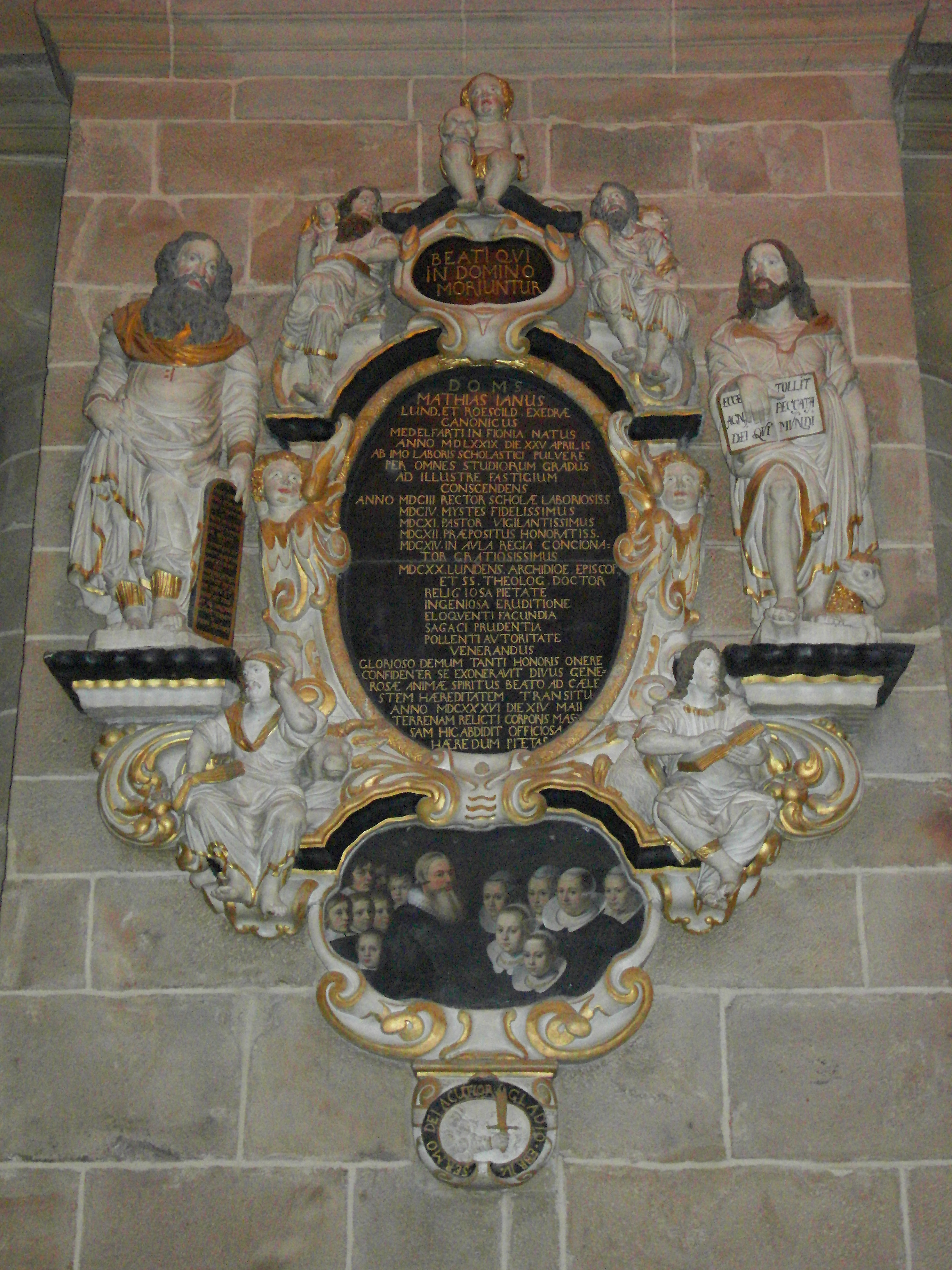 An epitaph in the Lund Cathedral in Lund.